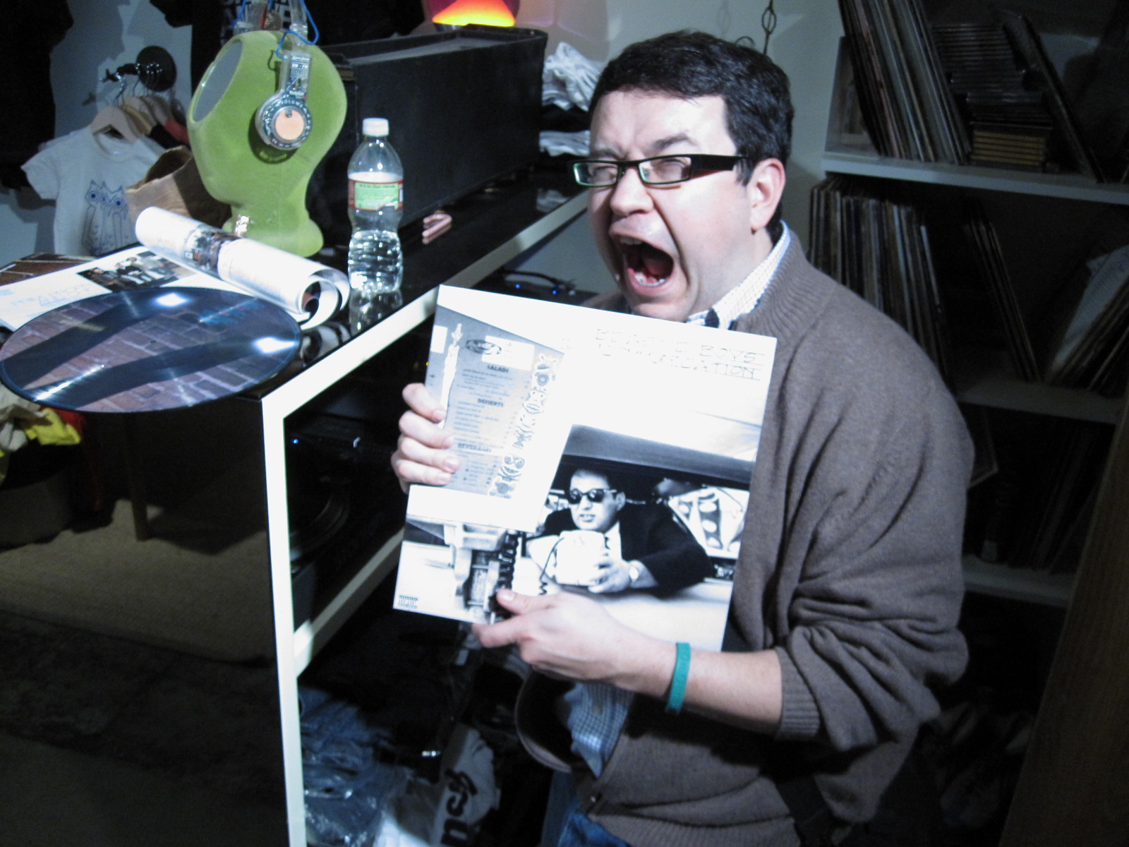 Wine blogger Hardy Wallace